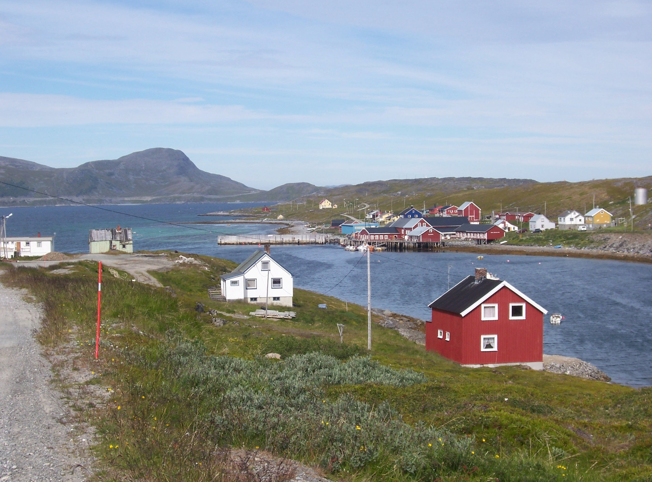 Repvåg on the western side of Porsangerfjorden in Nordkapp municipality, not far from Honningsvåg and North Cape